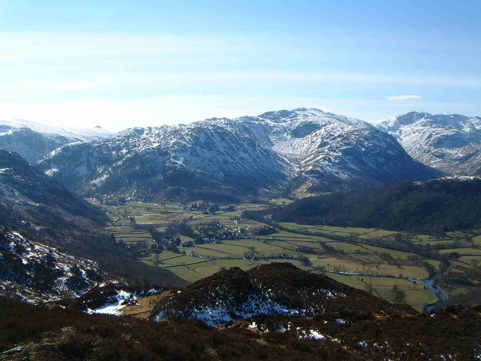 Glaramara with Combe Gill in view from Grange Fell, 6 km to the north Personal photograph taken by Mick Knapton on 22nd March 2006